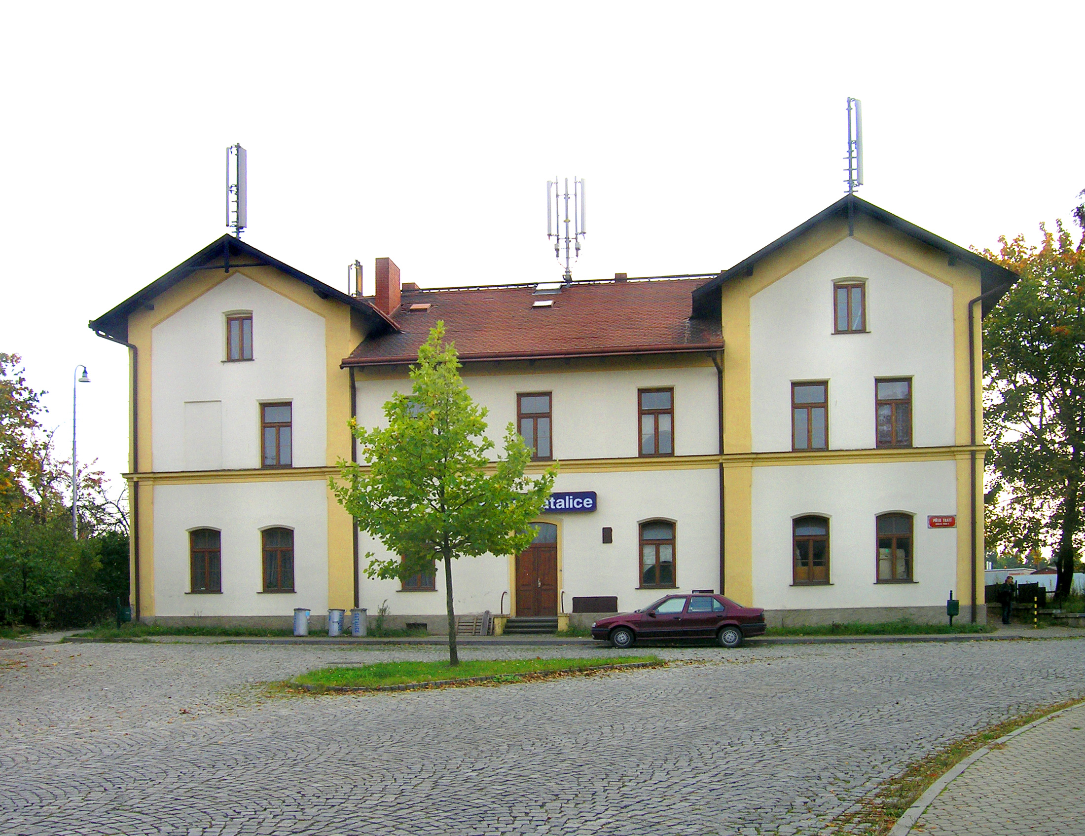 Railway station in Satalice, Prague